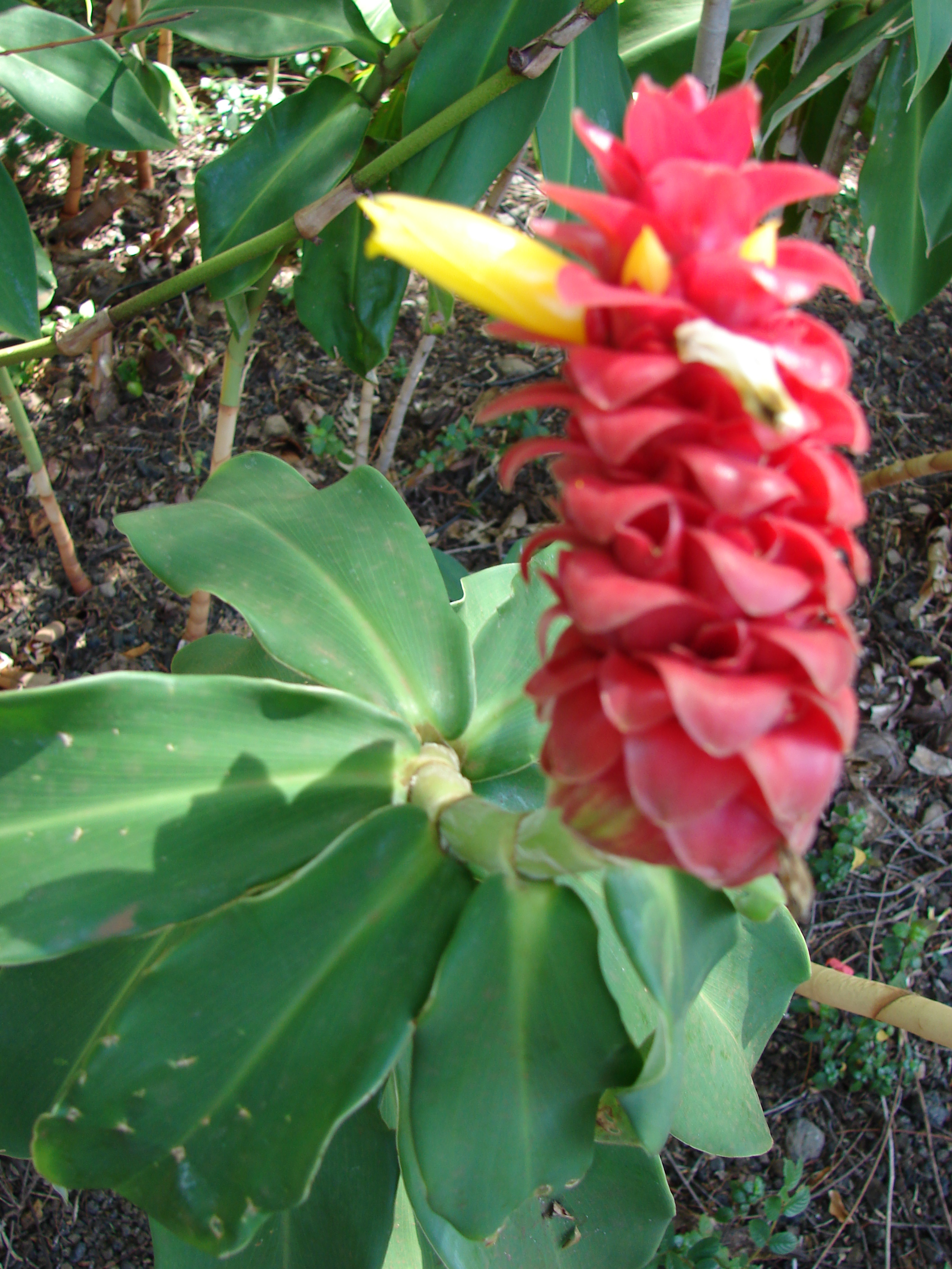 Costus comosus (flowers and leaves). Location: Maui, Enchanting Floral Gardens of Kula